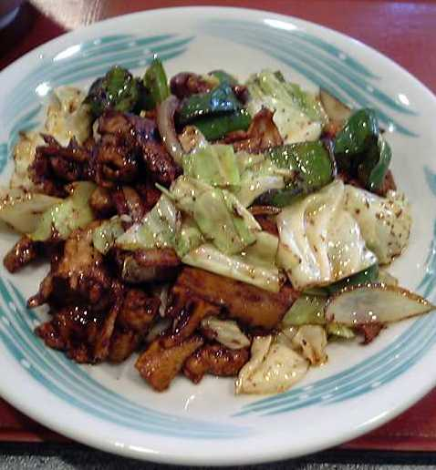 Twice cooked pork.